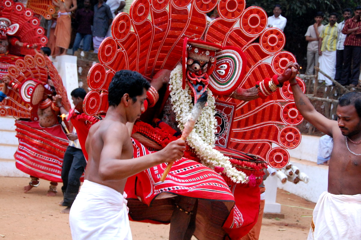 Kuttichattan Thirra.